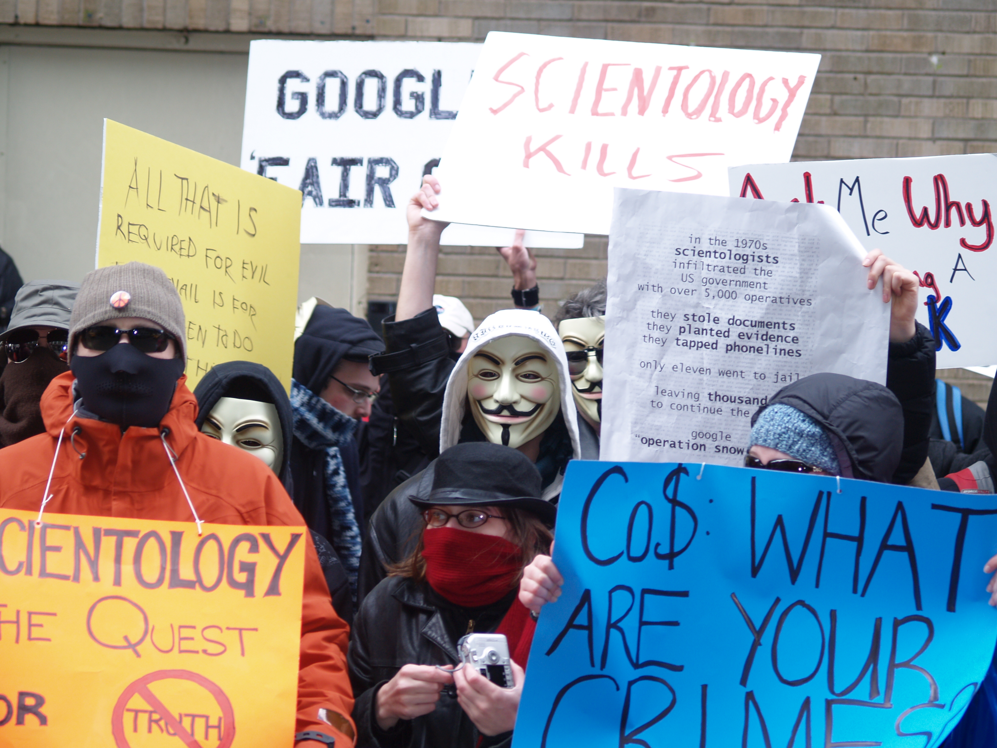 Protest by an Internet group calling itself 'Anonymous' against the practices and tax status of the Church of Scientology. The protesters believe the church is a cult that harms it practitioners, and that its tax-free status as a church should be revoked, as, they claim, it appears to be more of a corporation.